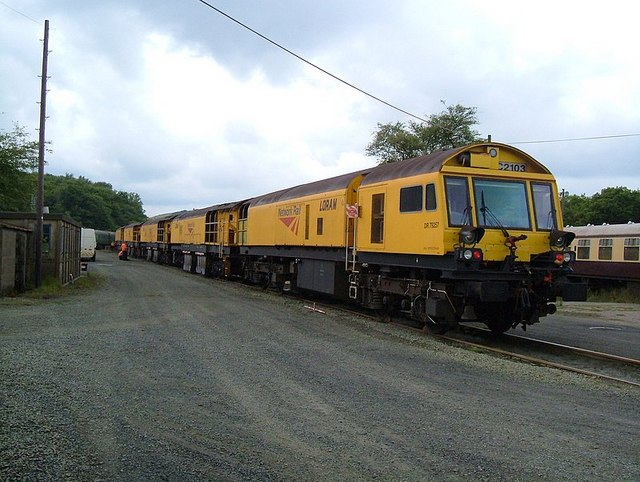 Smooth Operator! (2)